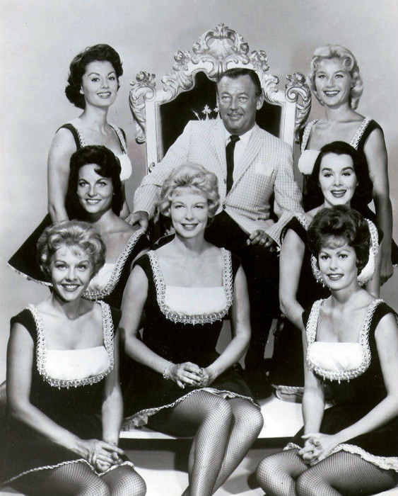 Publicity photo of Jack Bailey, host of the television program Queen for a Day.